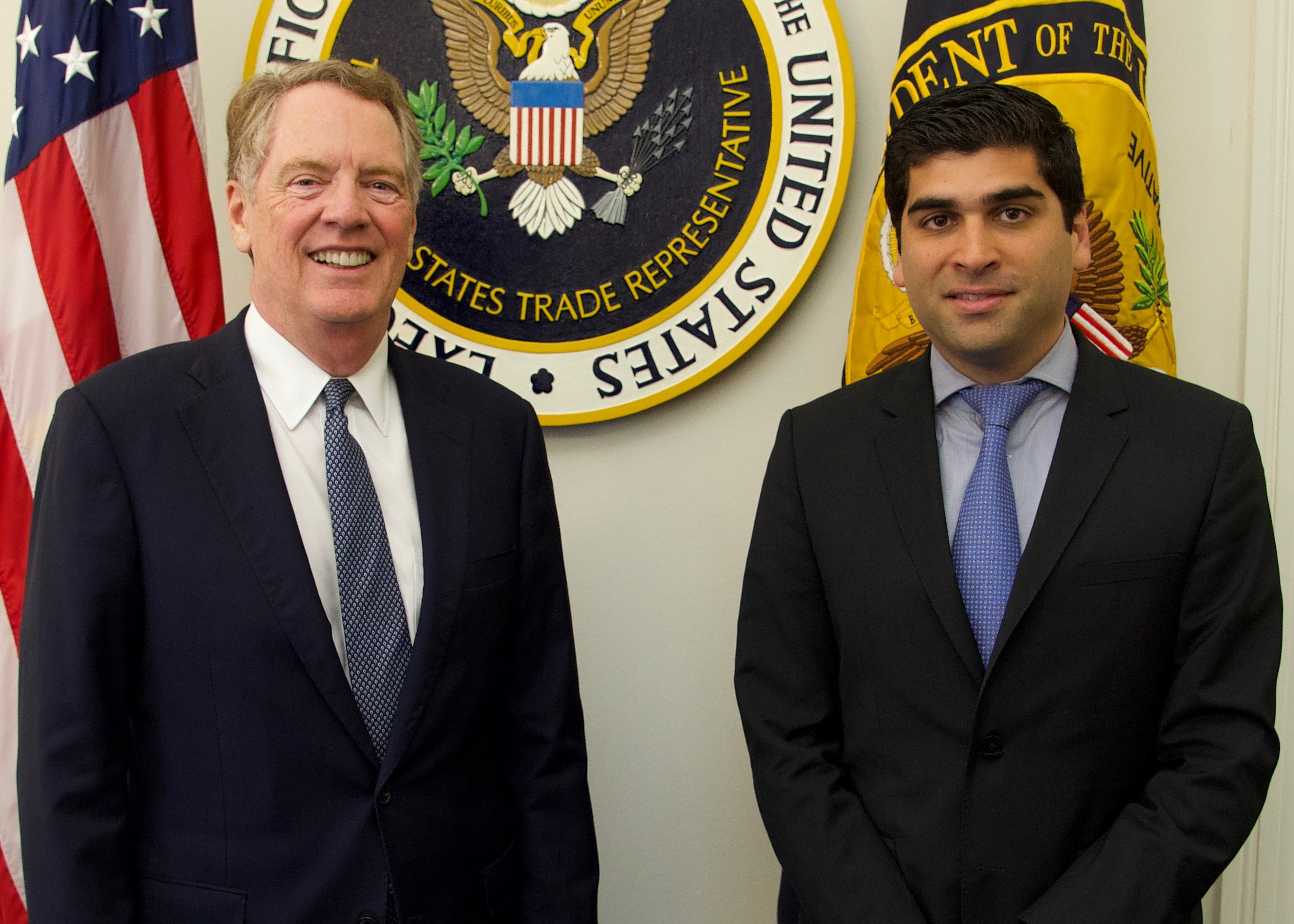 In 2018, U.S. goods exports to Ecuador totaled $5.8 Billion. The United States’ top exports to Ecuador were mineral fuels, machinery, electrical machinery, plastics, & paper. Today, USTR Lighthizer met with Ecuadorian VP @ottosonnenh to discuss strengthening U.S.-Ecuador trade.